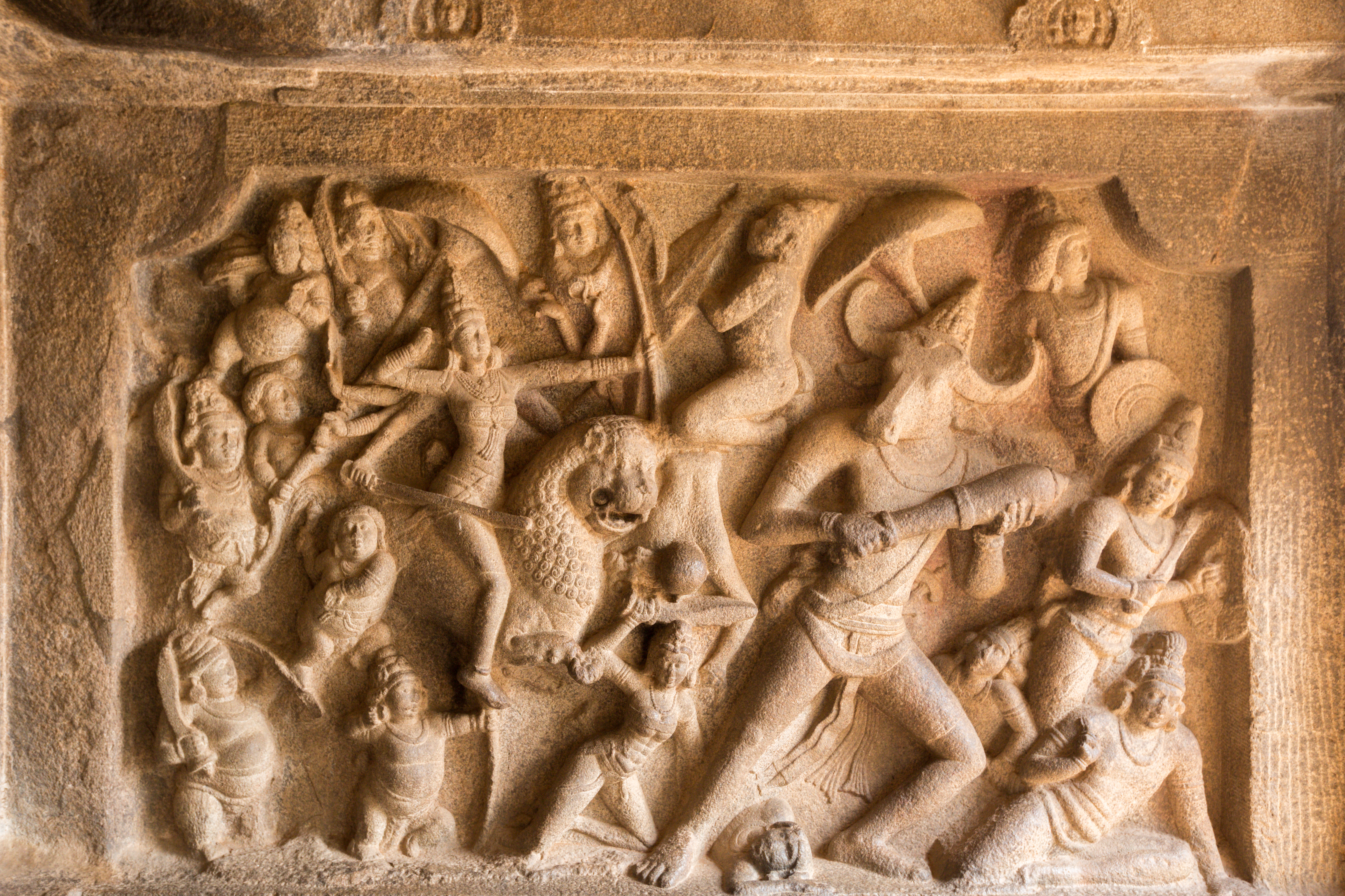 This project exploring MAMALLAI was undertaken as it holds a significant place in the history of Tamilazagam. Mamallai temples and sculptures can be considered as a prototype laboratory for the temple architecture of Dravidian style. Even much before the Mahendravarman (590-630 AD) of Pallava dynasty, temple worship was much in practice, however, he was one who initially introduced the STONE TEMPLE building to Tamilazagam. Before his time, perishable materials was used for temple construction like bricks, clay, limestone and wood. Tamilians during Sangam and post sangam period used Stones to commemorate the valor of hero’s , who had sacrificed their life for their land . These “Hero Stones” ( “Veera Kallu” in Tamil)being built in the memory of the DEAD valorous ones, probably was the reason why stones were not used for the construction of temples. In fact cave temples and structural temples were in vogue with other contemporary rulers of north, namely Chalukyas and Rashtrakutas and the much earlier rulers of Gupta and Maurayas dating back to 2 to 3rd century BCE. There is no unanimity among experts on the authorship and chronology of Mamallai Monuments. However in general the experts feel that these Monuments came in to existence over a period of almost a century, starting from Mahendra Pallava (630-668 AD), his son Narasimha pallava and then followed by Parameswara and Rajasimha (700-728AD) Mamallai achieves a unique position in India in temple architecture studies as it has the following temple style in one place. - Cave Temples - Monolithic Temples( insitu single rock temples) - Structural Temples( where rocks are cut/sized and laid) - Open air Bas Relief. Mamallai, a treasure house of Temple architecture , in a way was an inspiration to great Cholas, who had immortalized the temple construction by their creative energy.